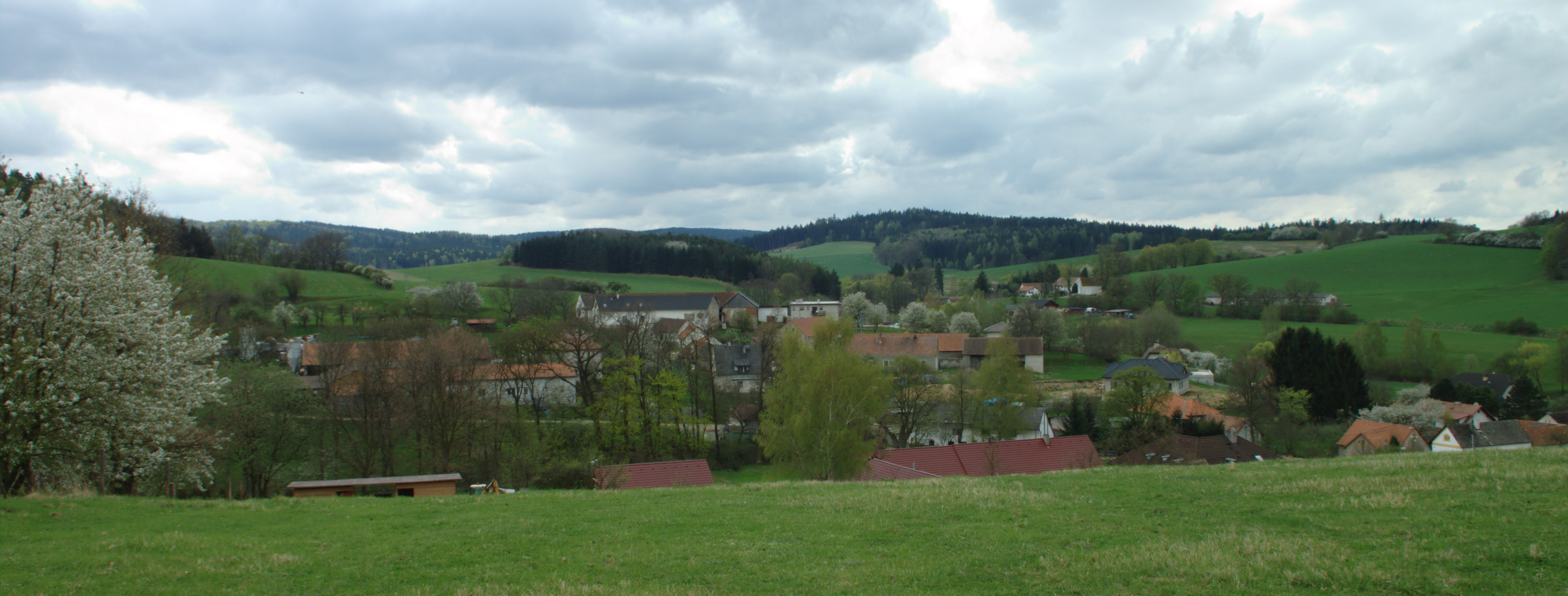 Village of Skalice in Benešov District, Central Bohemian Region, CZ